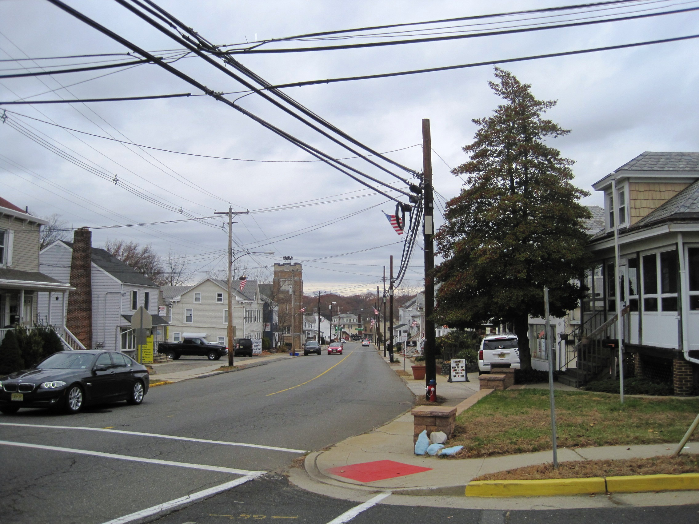 Photo showing downtown Milltown, New Jersey looking north along Main Street (County Route 606) at Violet Terrace.